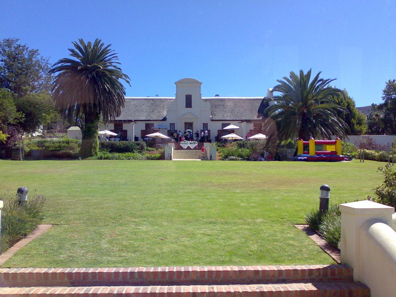 South African winery Meerendal Wine Estate